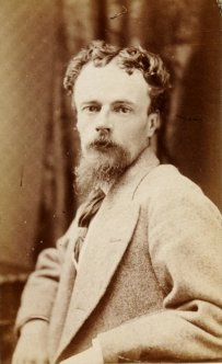 Portrait of John Atkinson Grimshaw (1836-1893)